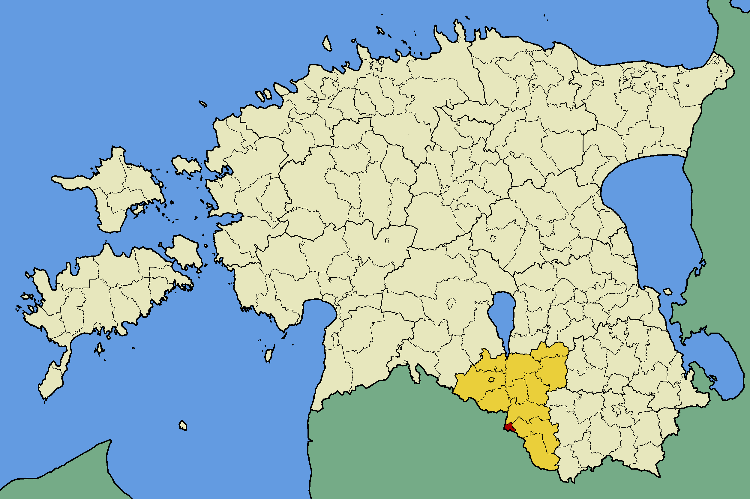 Map of Estonia with borders of municipalities (parishes). Valga county and Valga town municipality emphasized.